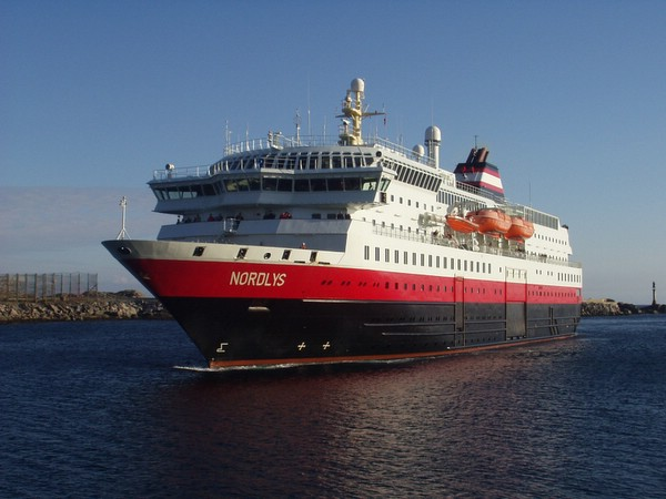 MS Nordlys im Hafen von Svolvær Information about Nordlys may be found at IMO 9048914. A ship can change name and flag state through time, but the IMO number remains the same through the hull's entire lifetime. As a result, it can be useful to identify a ship by using the IMO number.